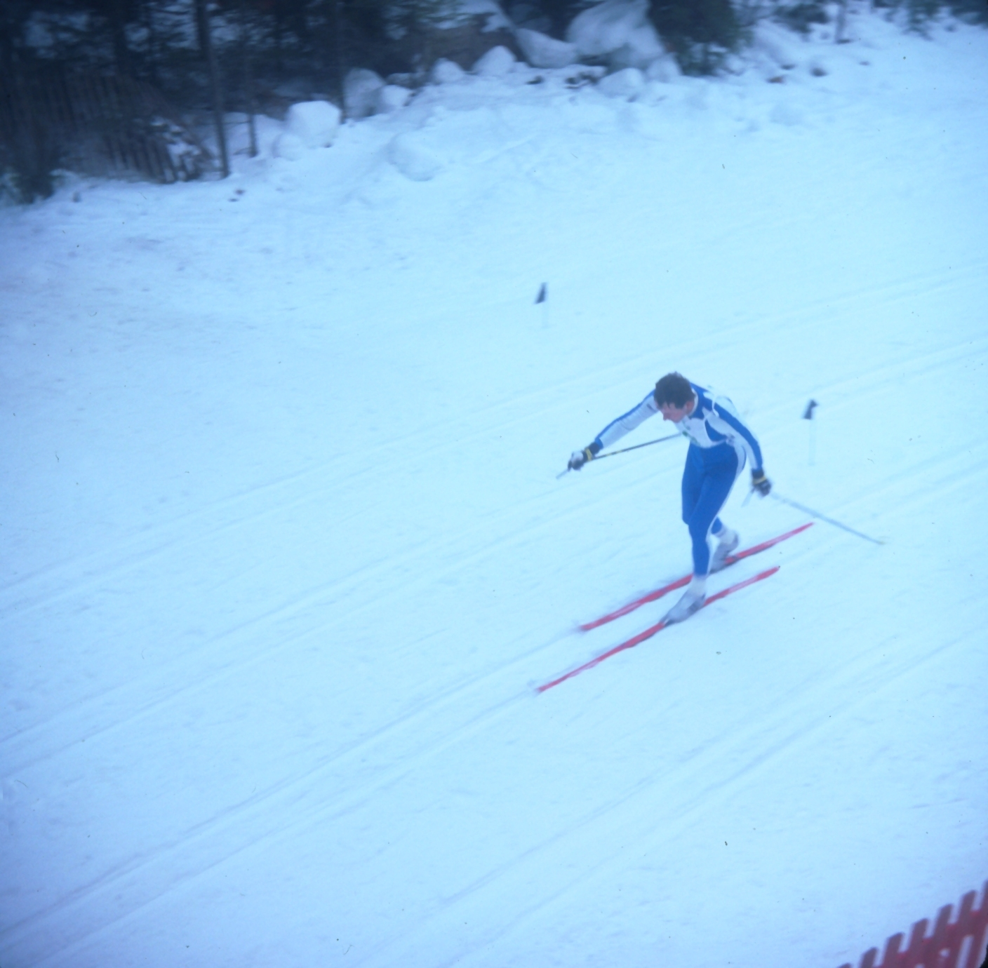 Scenery at the 1980 Winter Olympics.